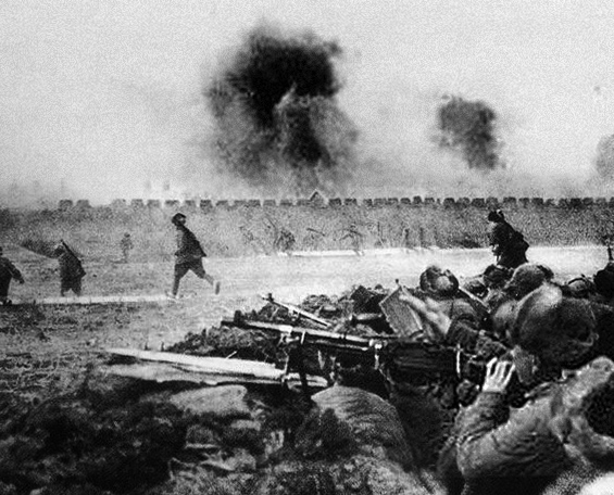 The People's Liberation Army charging toward the city walls of Jinzhou under the cover of heavy artillery fire.